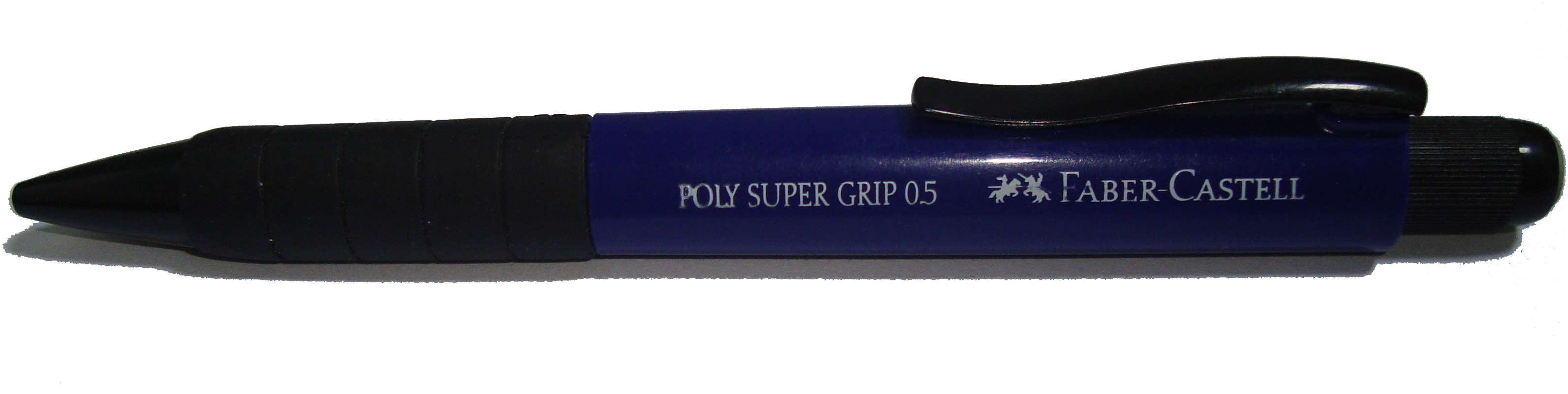 Taken by me. Faber-Castell mechanical pencil.